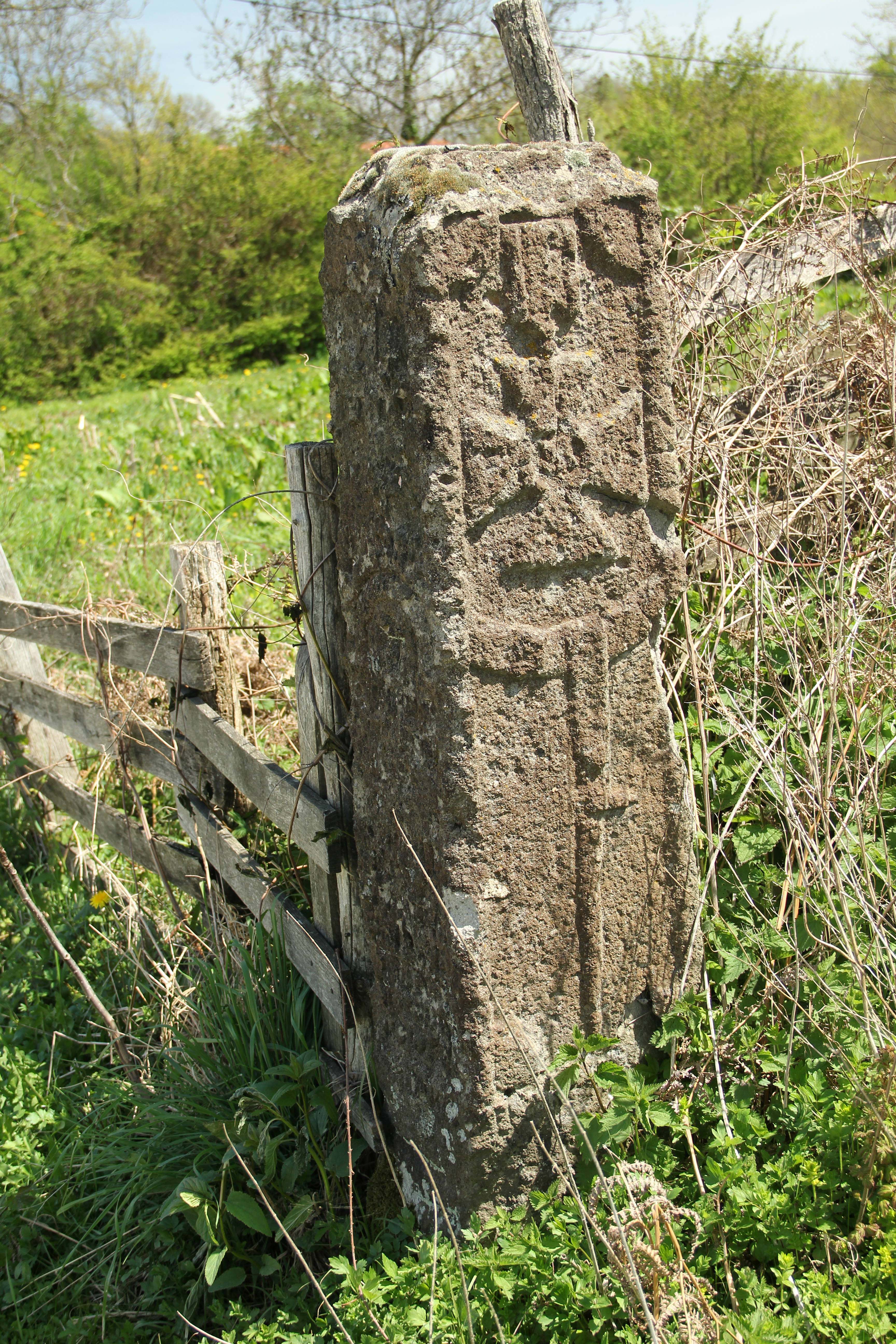 Roadside memorial to Milan Trnavac in the village of Gornji Branetici (the municipality of Gornji Milanovac), Serbia.